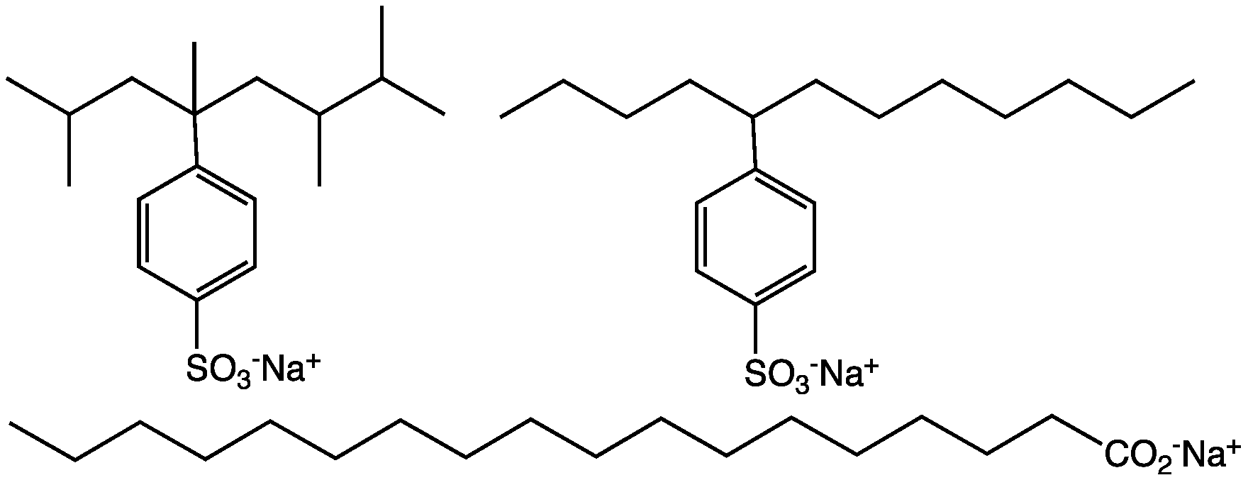 structure of two common surfactants used in detergents and a common ingredient in soap